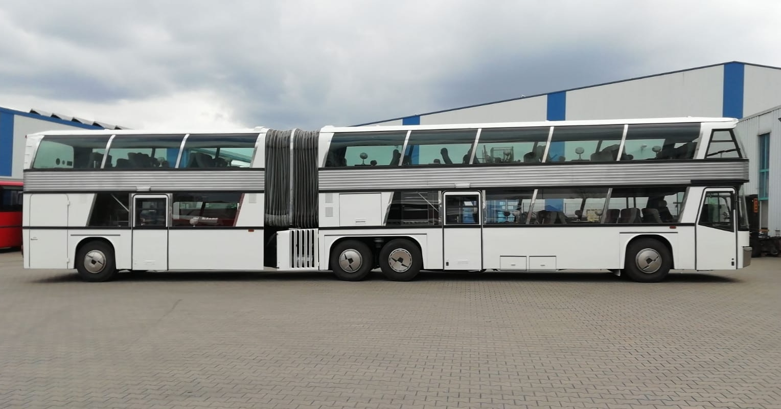 Neoplan Jumbocruiser N138/4 short after frameoff restauration.